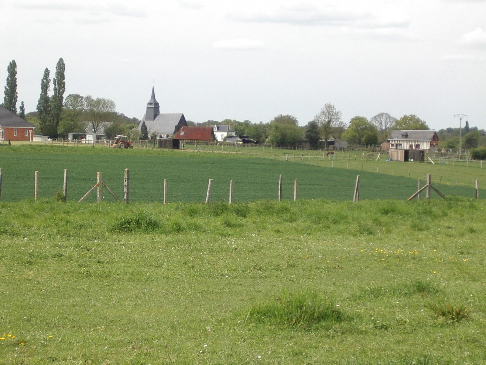 Saint-Aubin-des-Hayes (Eure, 27)